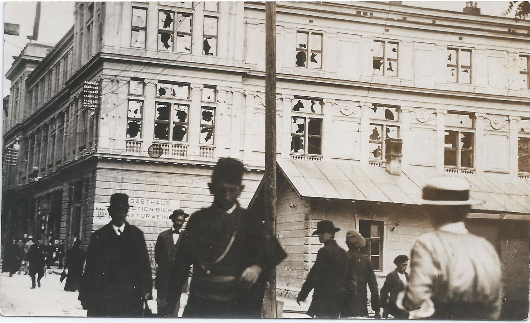 Serb school demolished in the pogrom